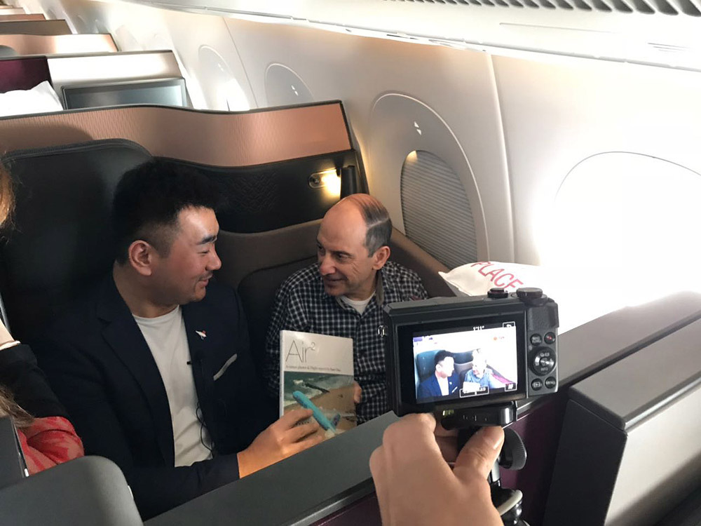 Sam Chui with QATAR Airways CEO during A350-1000 Delivery flight